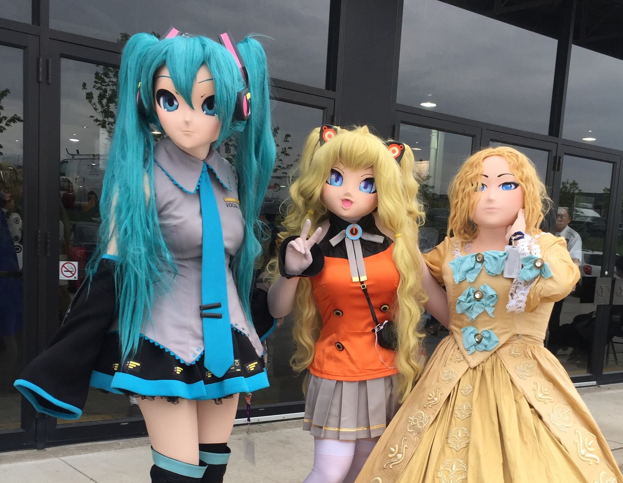 Anime North 2017 event photo.